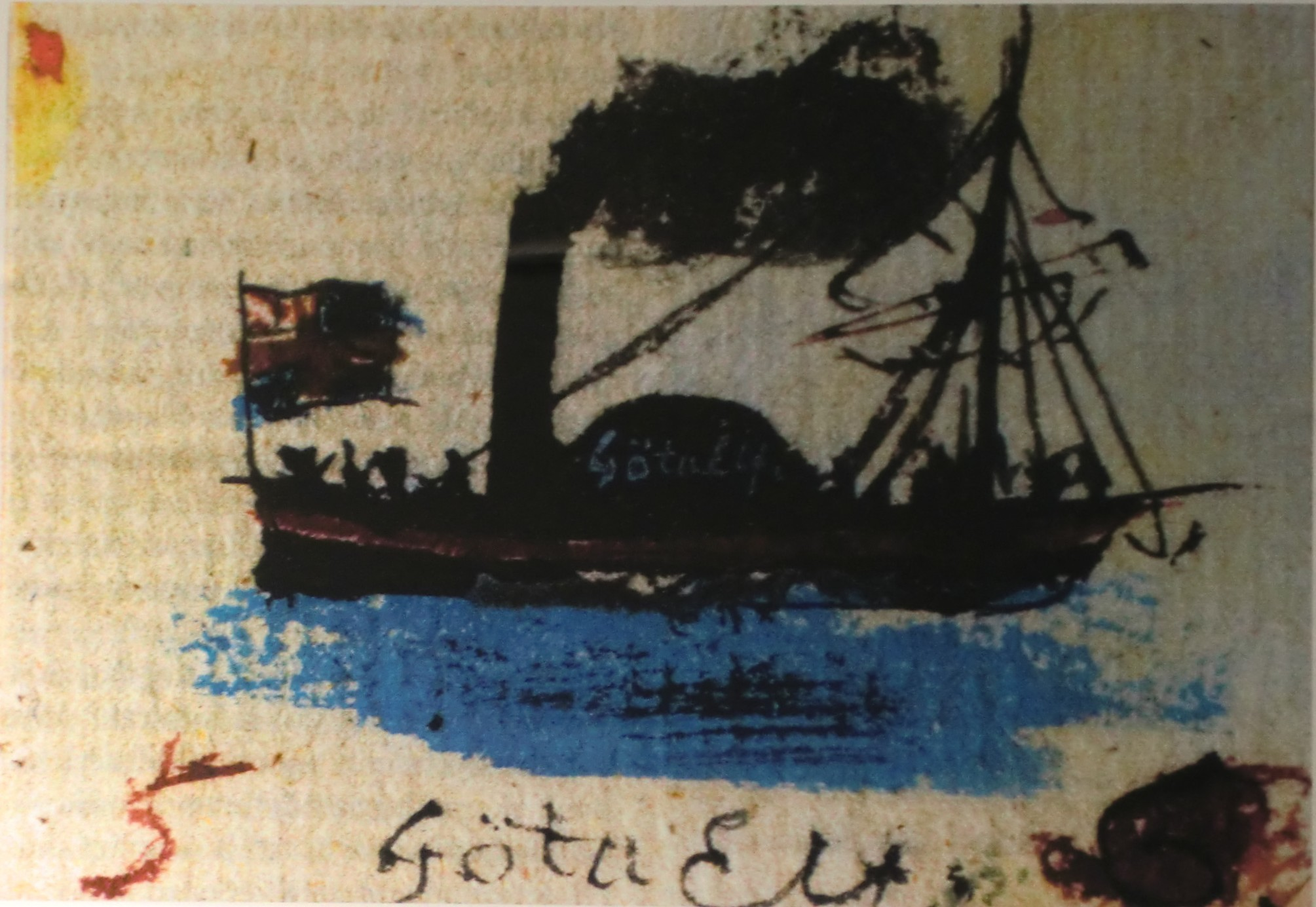 Paddle steamer "Göta Elf" painted 1835 by the swedish price Gustaf, 8 years old. From exhibition at Lödöse Museum.